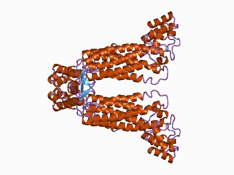 Cartoon representation of the molecular structure of protein registered with 1aos code.